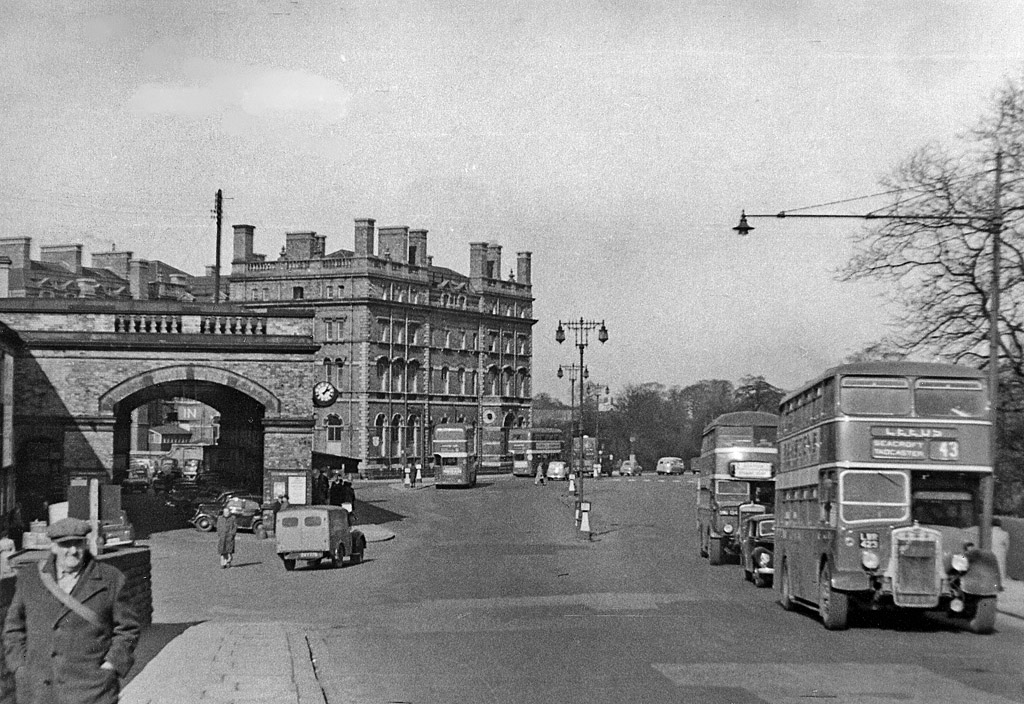 York: Station Road and Royal Station Hotel. View northward - 55 years ago; main Station entrance is on left.